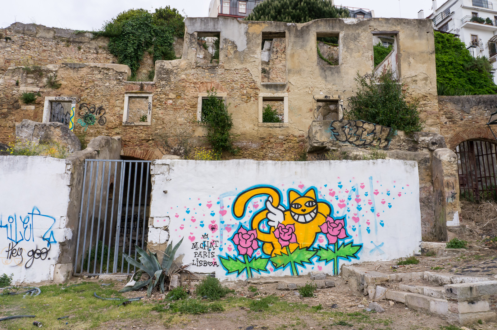 M. Chat Lisboa